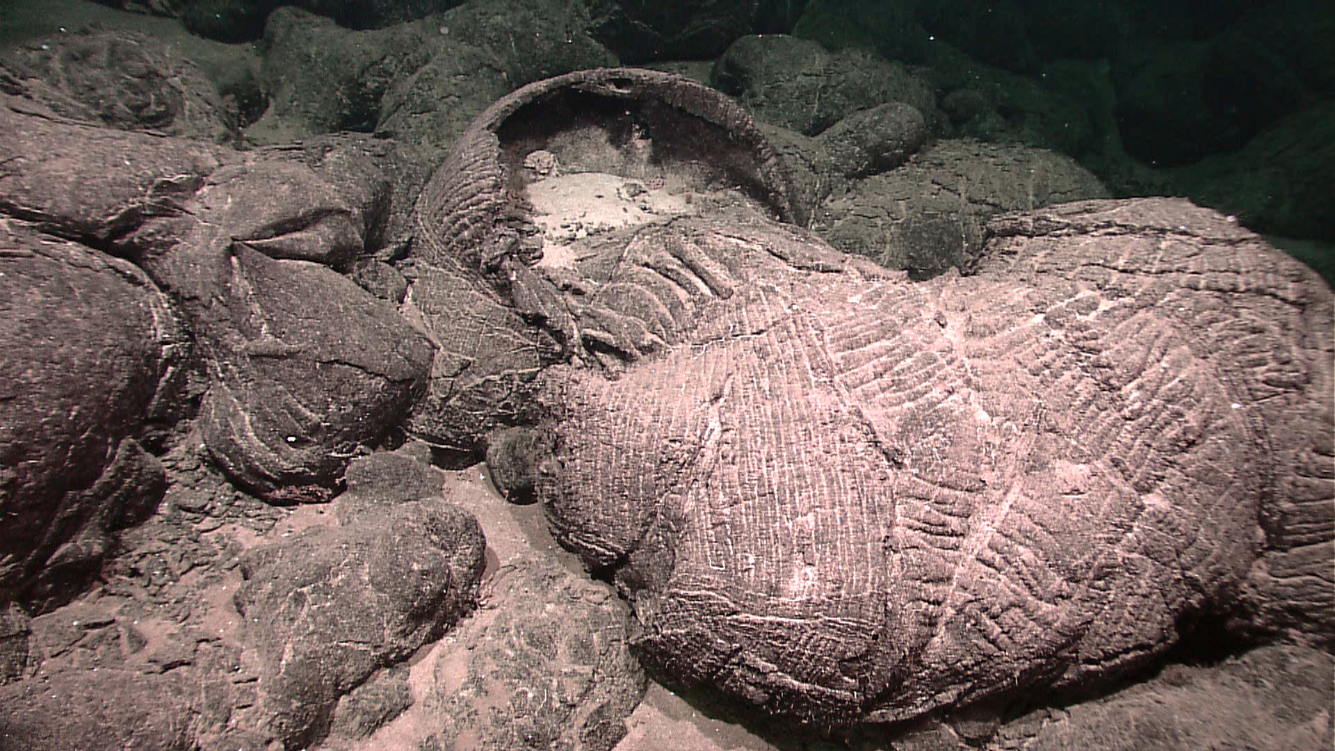 A collapsed pillow lava. NOAA Okeanos Explorer Program, Galapagos Rift Expedition. 15 July 2011.